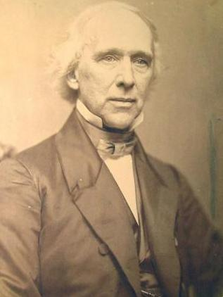 Reverend William Theodore Dwight (June 15, 1795-Oct. 22, 1865), cropped from original